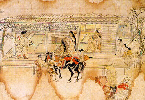 The Legendary Origins of Kokawadera (紙本著色粉河寺縁起, shihon chakushoku Kokawadera engi). Handscroll (Emakimono), 30.8 cm、x 1984.2 cm. Color on paper. Located at Kokawadera (粉河寺), Kinokawa, Wakayama.